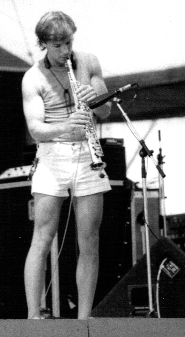 Bill Evans (sax), Mahavishnu Orchestra, Hollabrunn, Austria